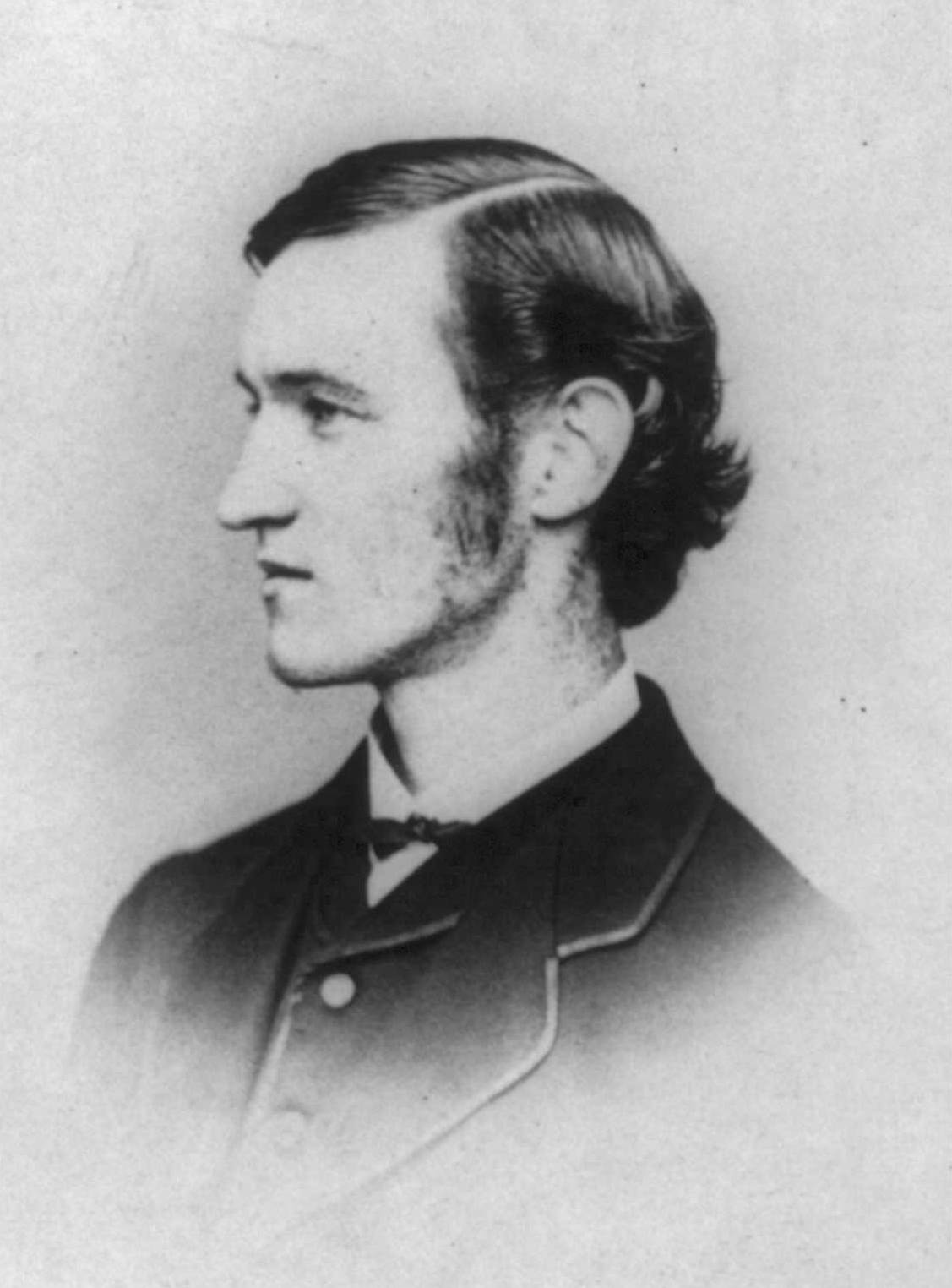 Profile photograph of Dorence Atwater